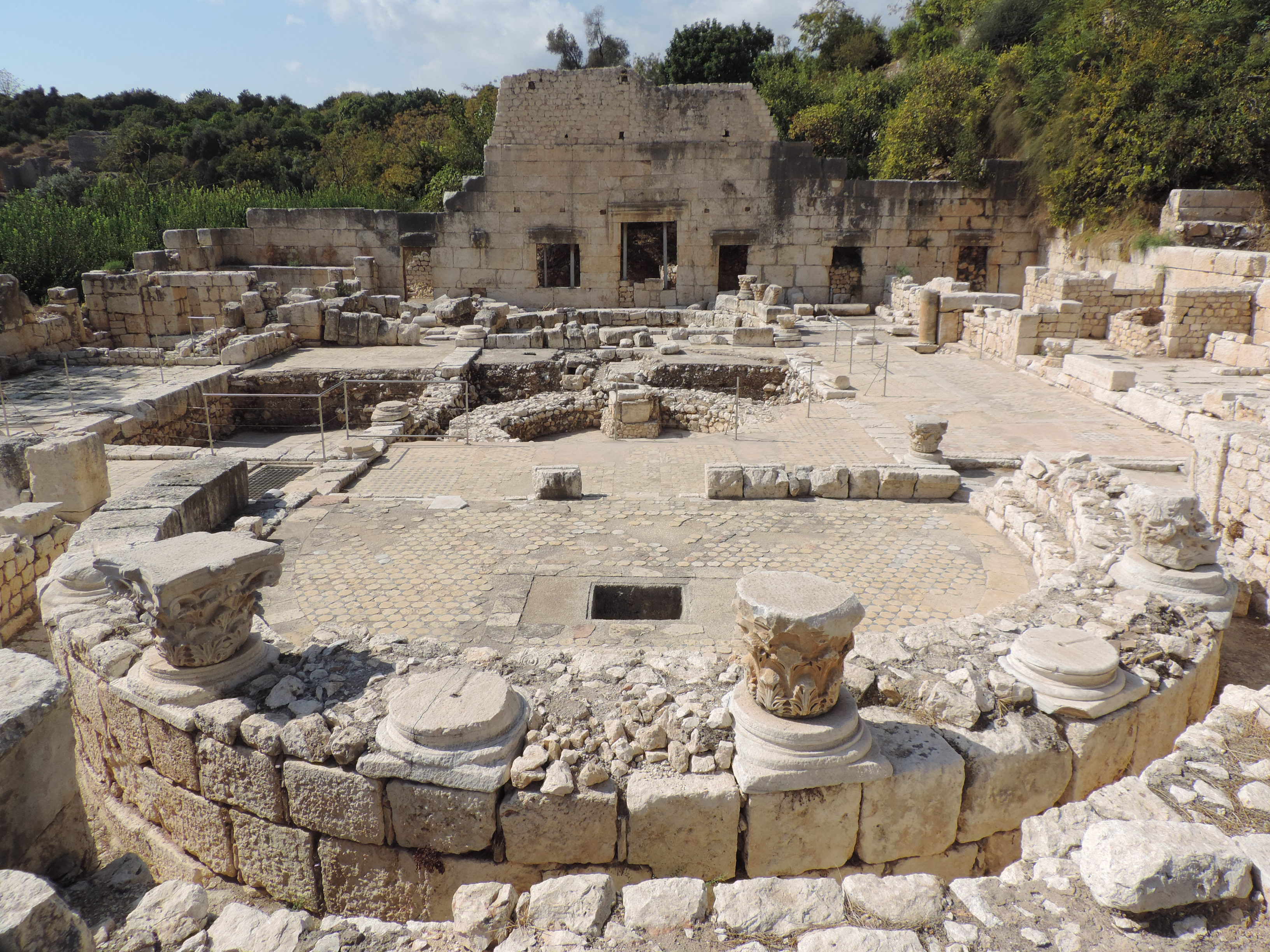 Ancient Roman town Elaiussa Sebaste near modern day Mersin, Turkey - the agora and the basilica